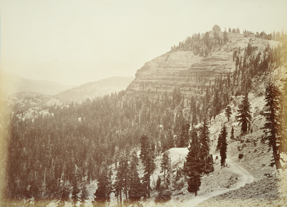 An album by Carleton E Watkins (1829-1916), one of the finest American landscape photographers of the nineteenth century.